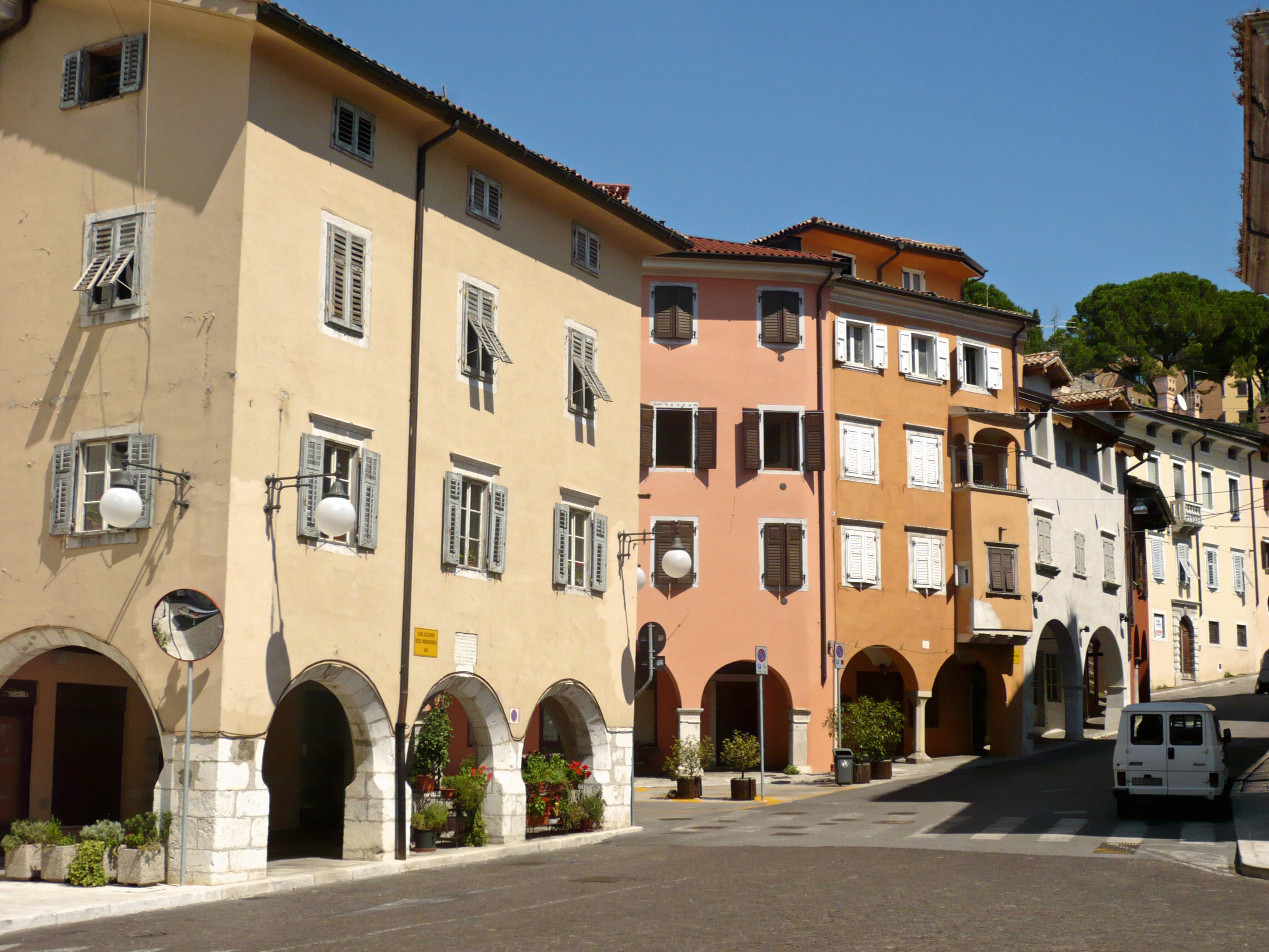 The old part of the town of Gorizia (Slovenian: Gorica) in Friuli Venezia Giulia, Italy.